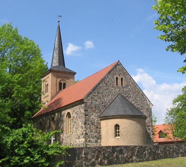 Stonechurch Jühnsdorf, built probably in 14th century. The village Jühnsdorf is a part of the municipality Blankenfelde-Mahlow in the district Teltow-Fläming, state Brandenburg, Germany.